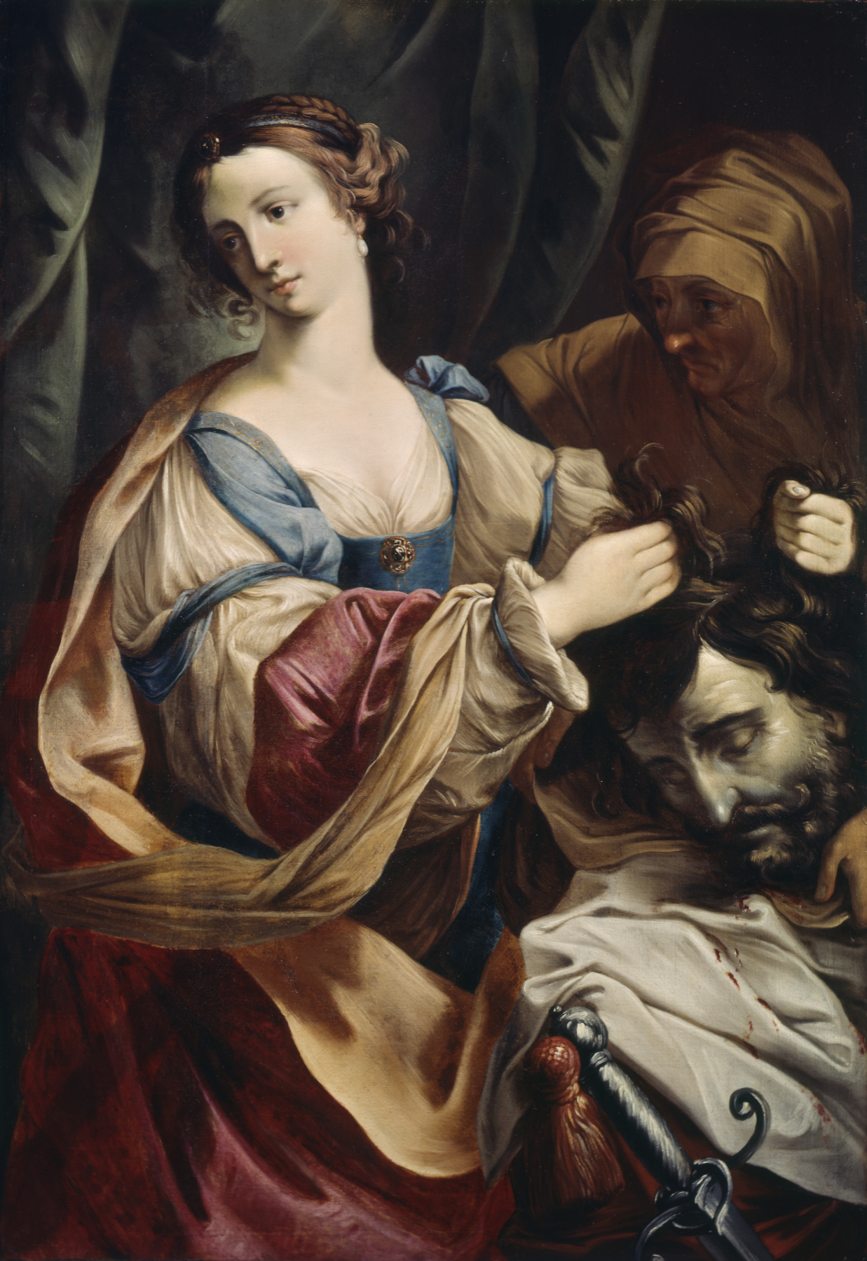 According to the Book of Judith, the Jewish widow Judith saved the Israelites from the Assyrians by decapitating their general Holofernes, whose army had besieged her city. She did this after having made him drunk at a banquet. Judith is commonly depicted as being assisted by an older maidservant in placing the head in a sack. The contrast between Holofernes's crude features and the heroine's beauty underlines the moral message of the eventual triumph of virtue over evil. The Bolognese painter Elisabetta Sirani based her style on that of Guido Reni (1575-1642), who was admired for his idealized depictions of women, as in his Penitent Magdalene (Walters 37.2631).